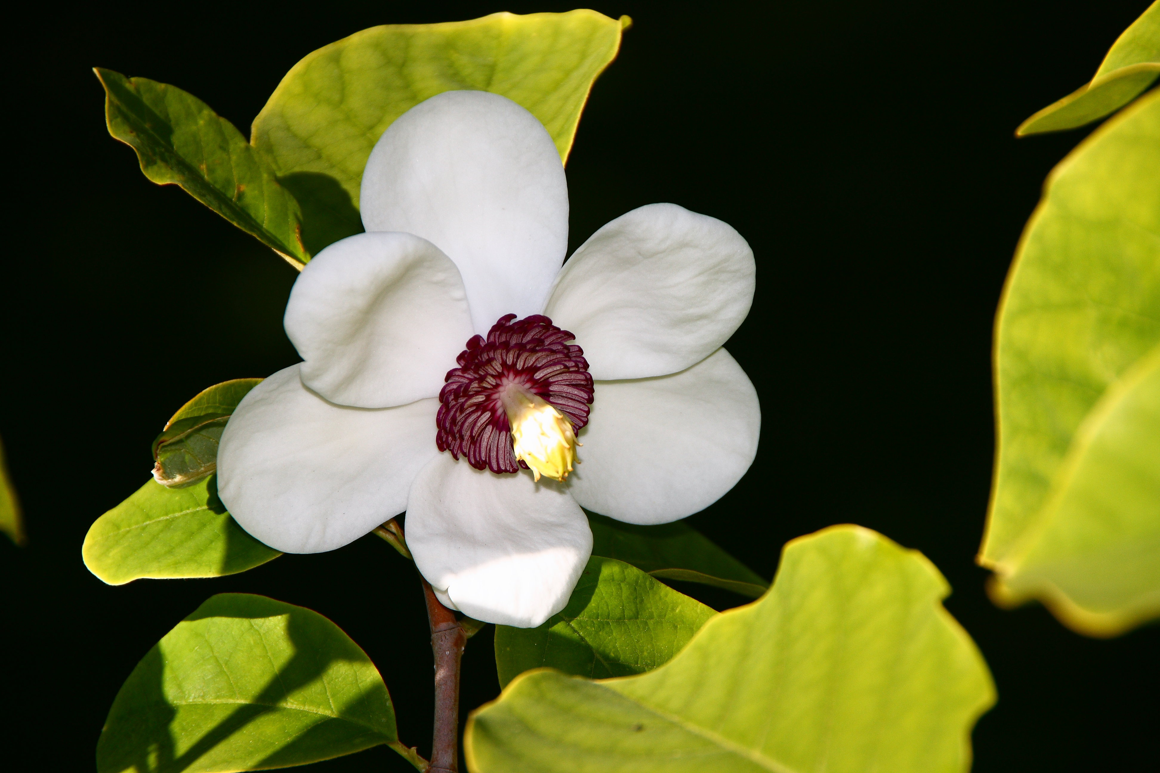 Magnolia sieboldii in the Botanic garden of Visby, Gotland.